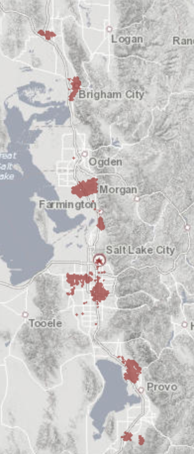 UTOPIA coverage area as of Jan 2, 2020